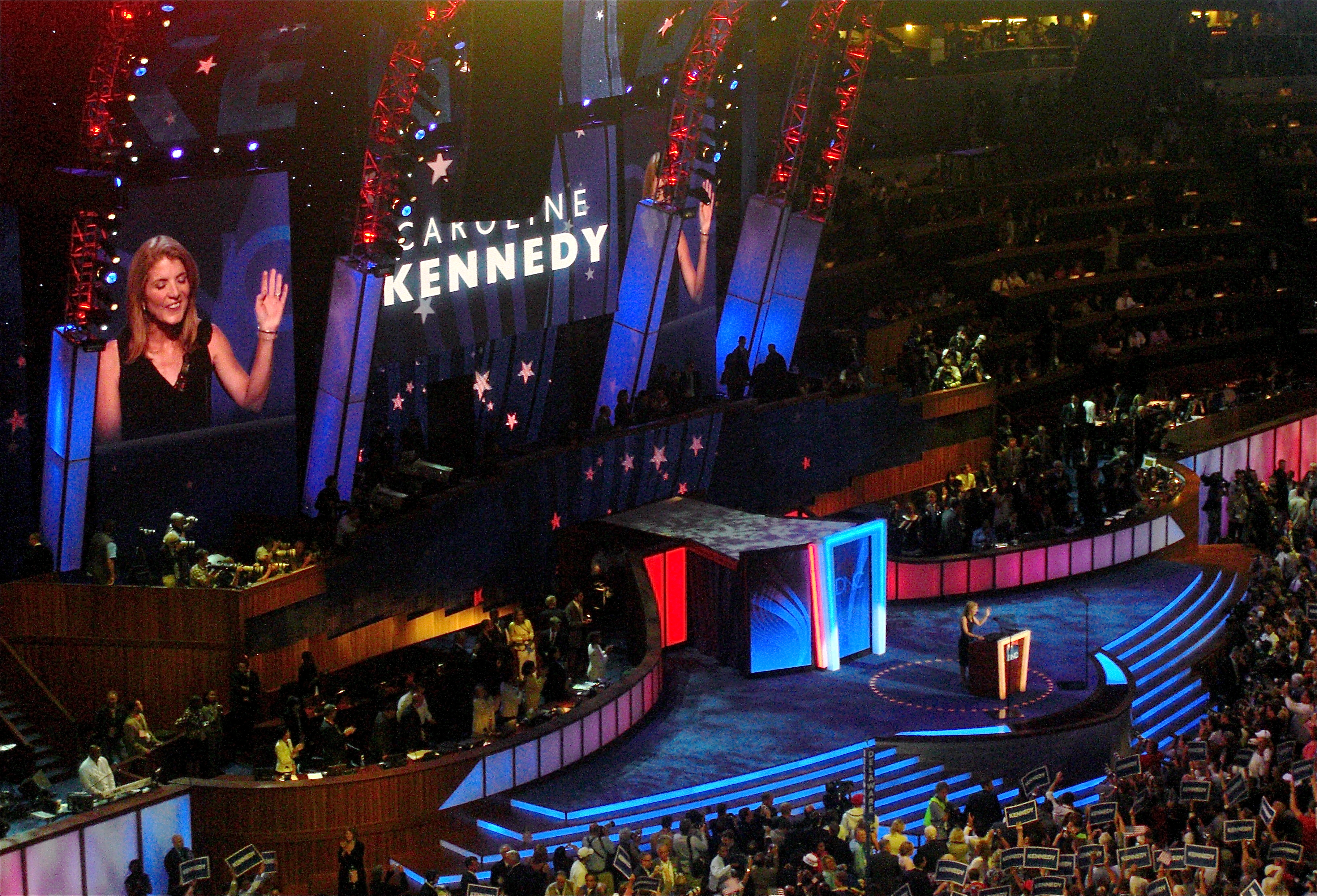 Caroline Kennedy speaks during the first night of the 2008 Democratic National Convention in Denver, Colorado.